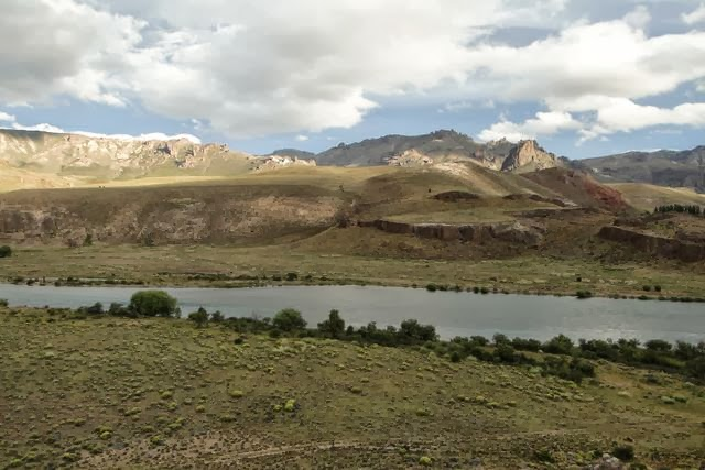 Rio Limay